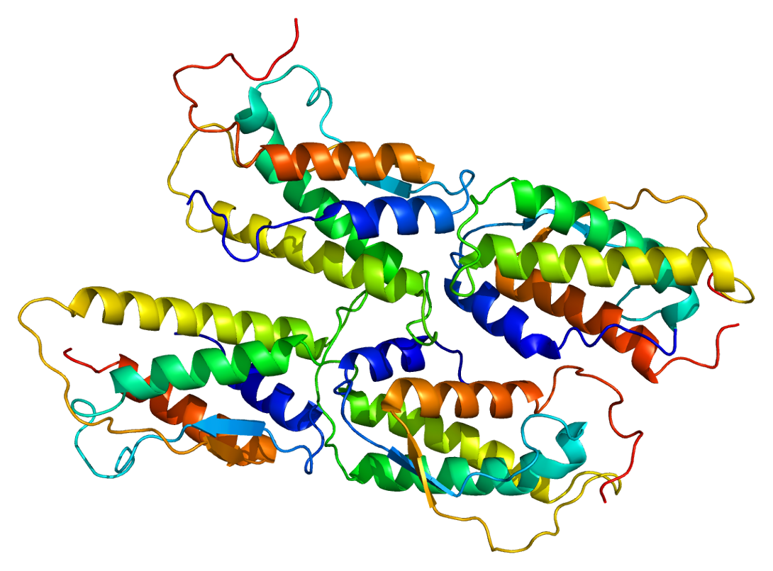 Structure of the KITLG protein. Based on PyMOL rendering of PDB 1exz.